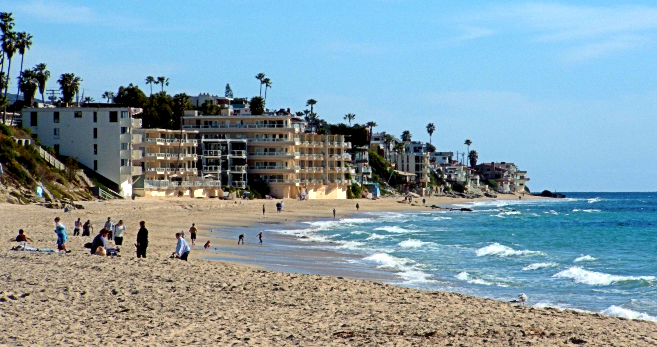 Languna Beach, California